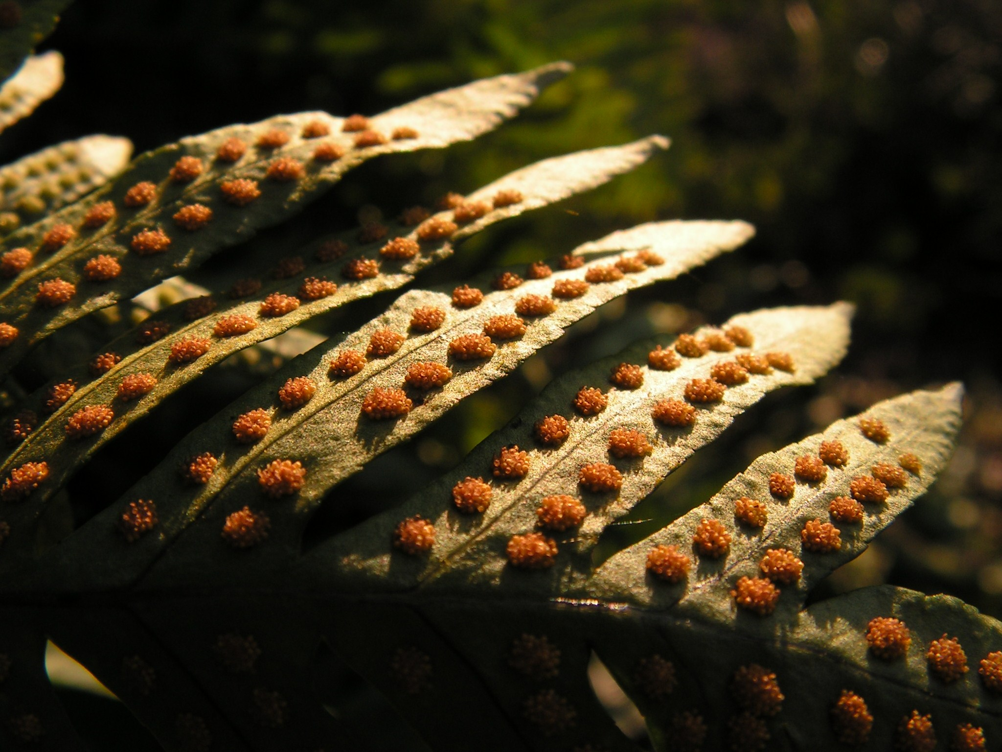 Polypodium vulgare sorus, Salles-la-Source (Aveyron, France).